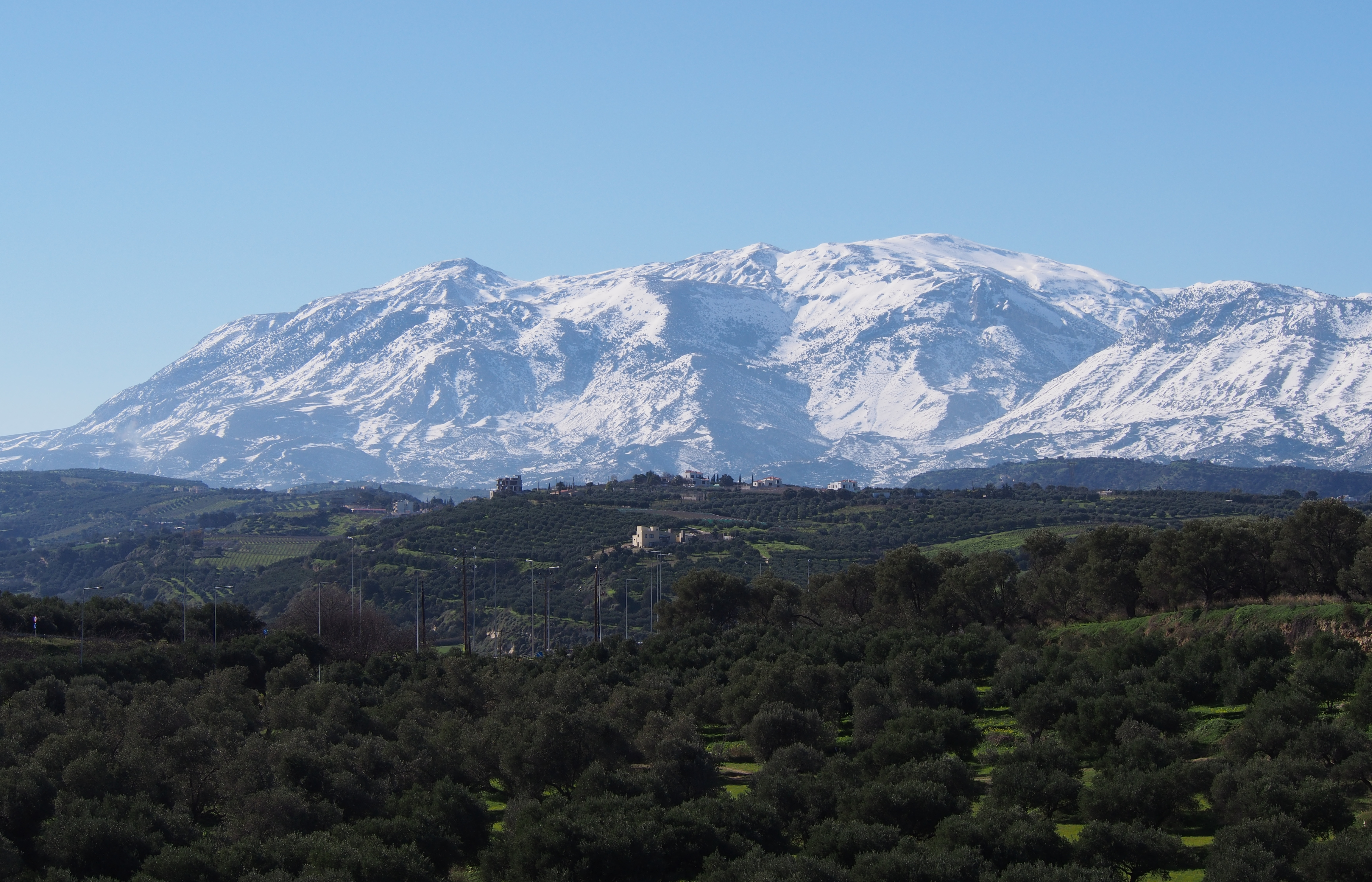 The snow-capped peak Koudouni (1,860 m), a subpeak of Psiloreitis, as seen from Heraklio.